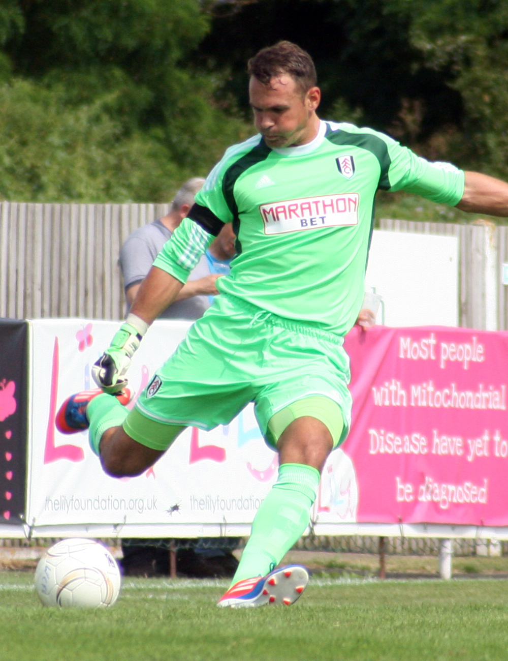 Craig Ross playing for Fulham U21s at Walton Casuals